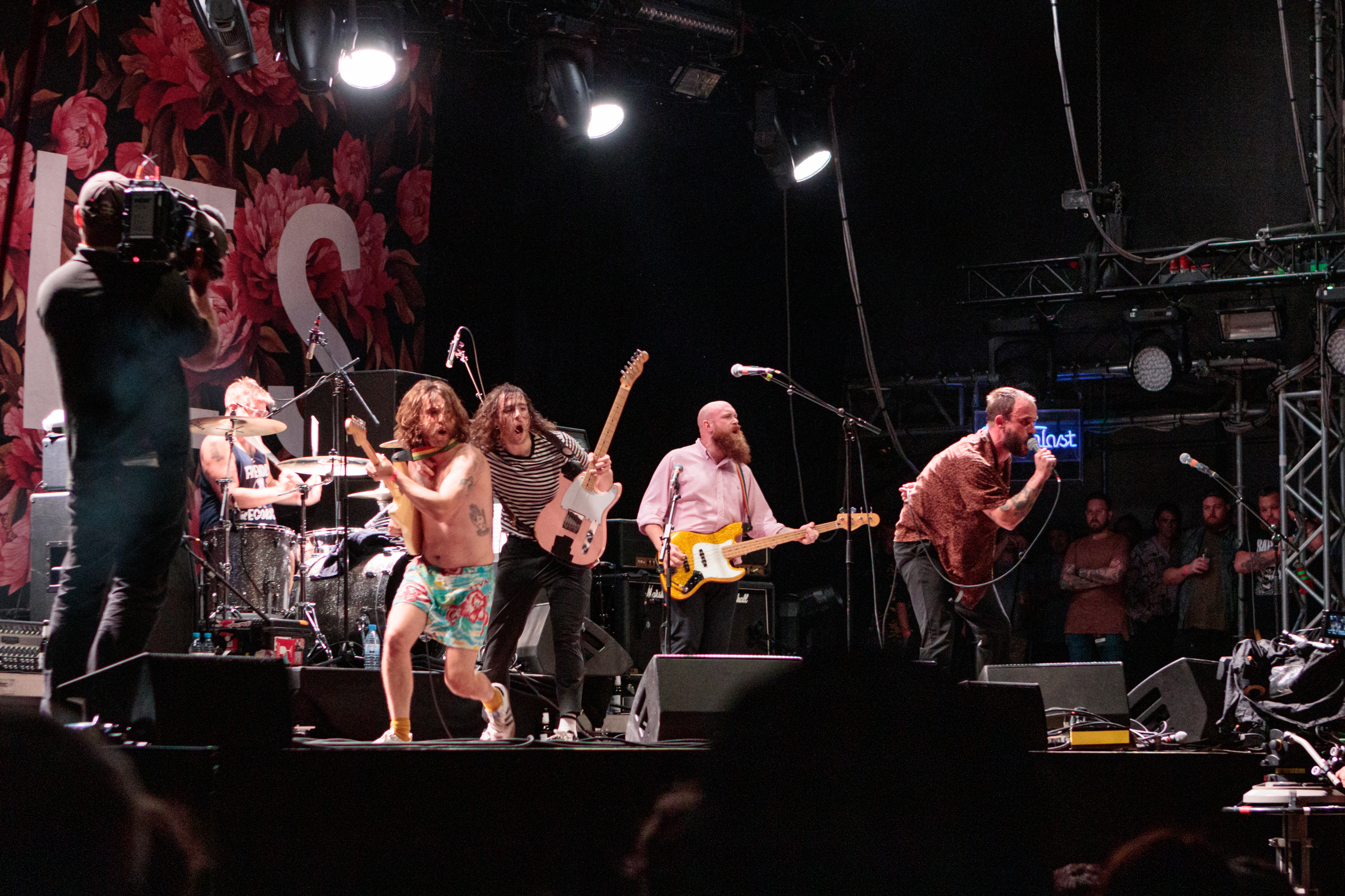 Idles on the Mainstage at Haldern Pop Festival 2019.